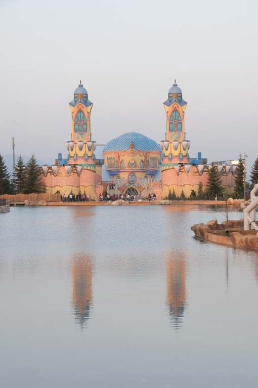 La casa delle winx